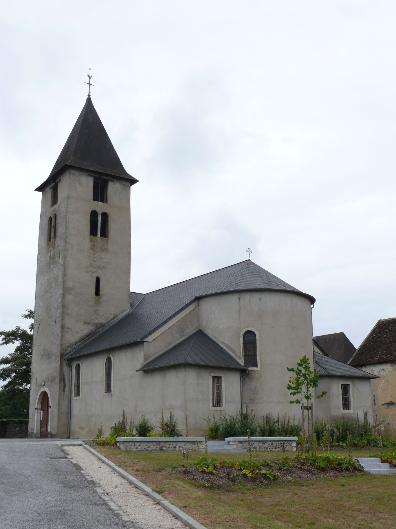 Saint-Savior's church in Sus (Pyrénées-Atlantiques, France).